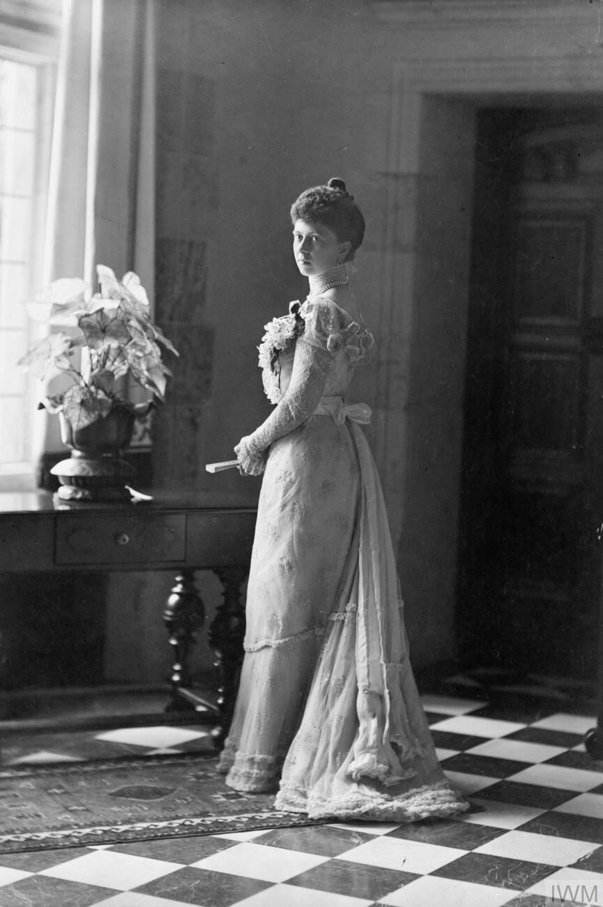 Germany Before the First World War 1890 - 1914 Portrait of Kaiser Wilhelm II's sister, Sophie, Crown Princess of Greece, taken in Germany, 1902.